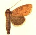 PLATE LVII.